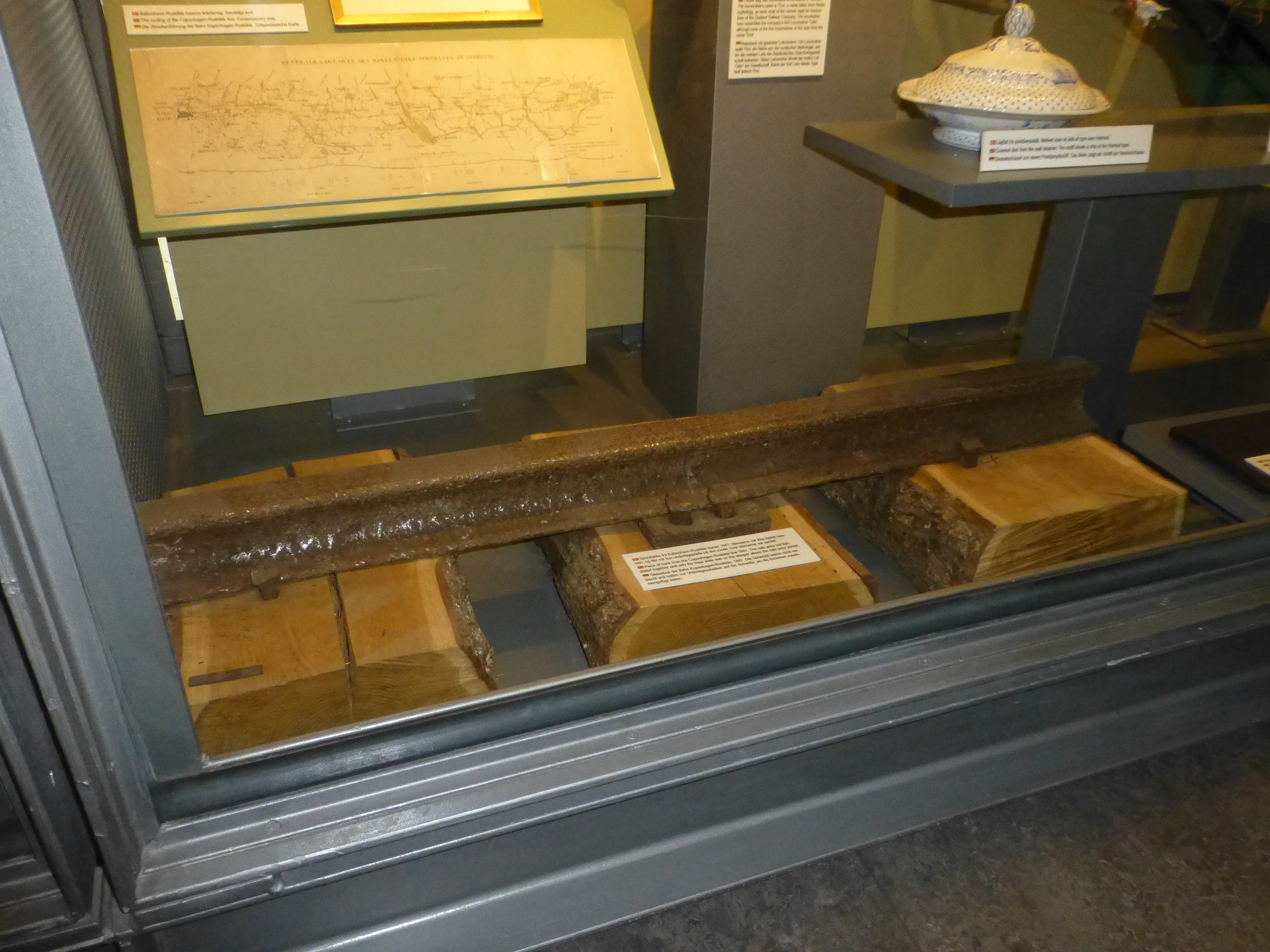 The historical exhibition at Danmarks Jernbanemuseum in Odense in Denmark. A part of a rail from the first Danish railway between Copenhagen and Roskilde from 1847.